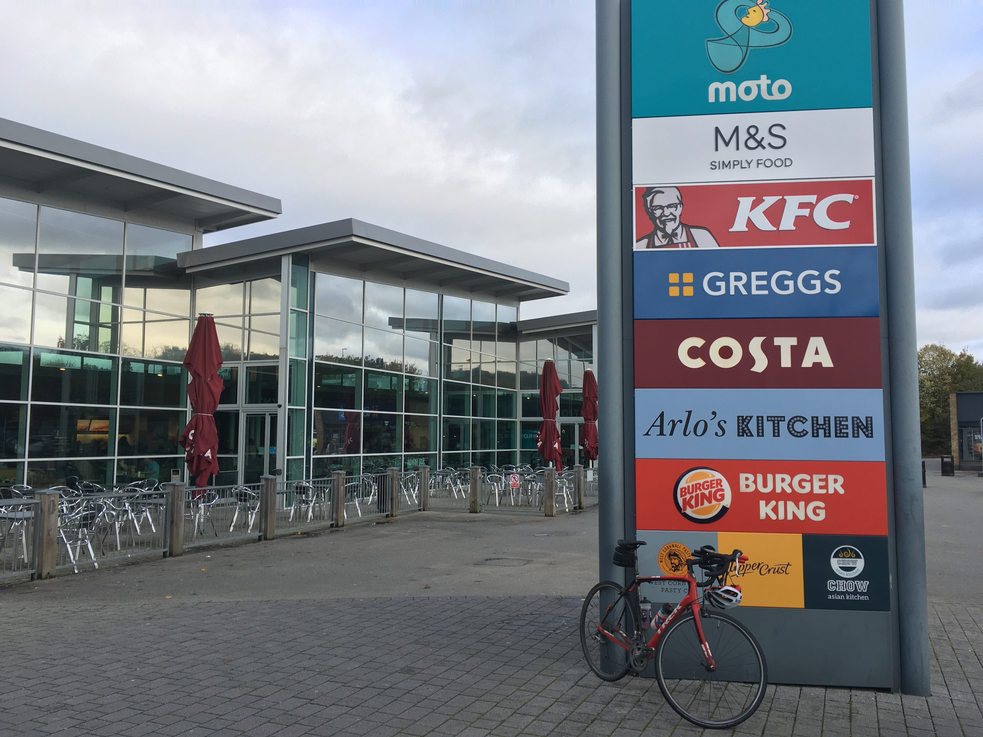 Cherwell Valley Services near Bicester